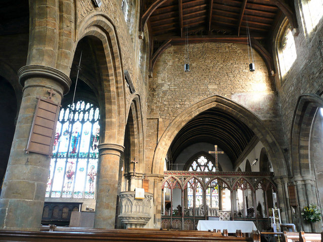 Bloxham. St Mary's church One of the real gems among Oxfordshire churches, St Mary's Bloxham makes an immediate impression with its lovely tower and spire dominating the main road through the village from Chipping Norton to Banbury. The origins of the church lie in the 13th century, but most of what remains is 14th and 15th century.